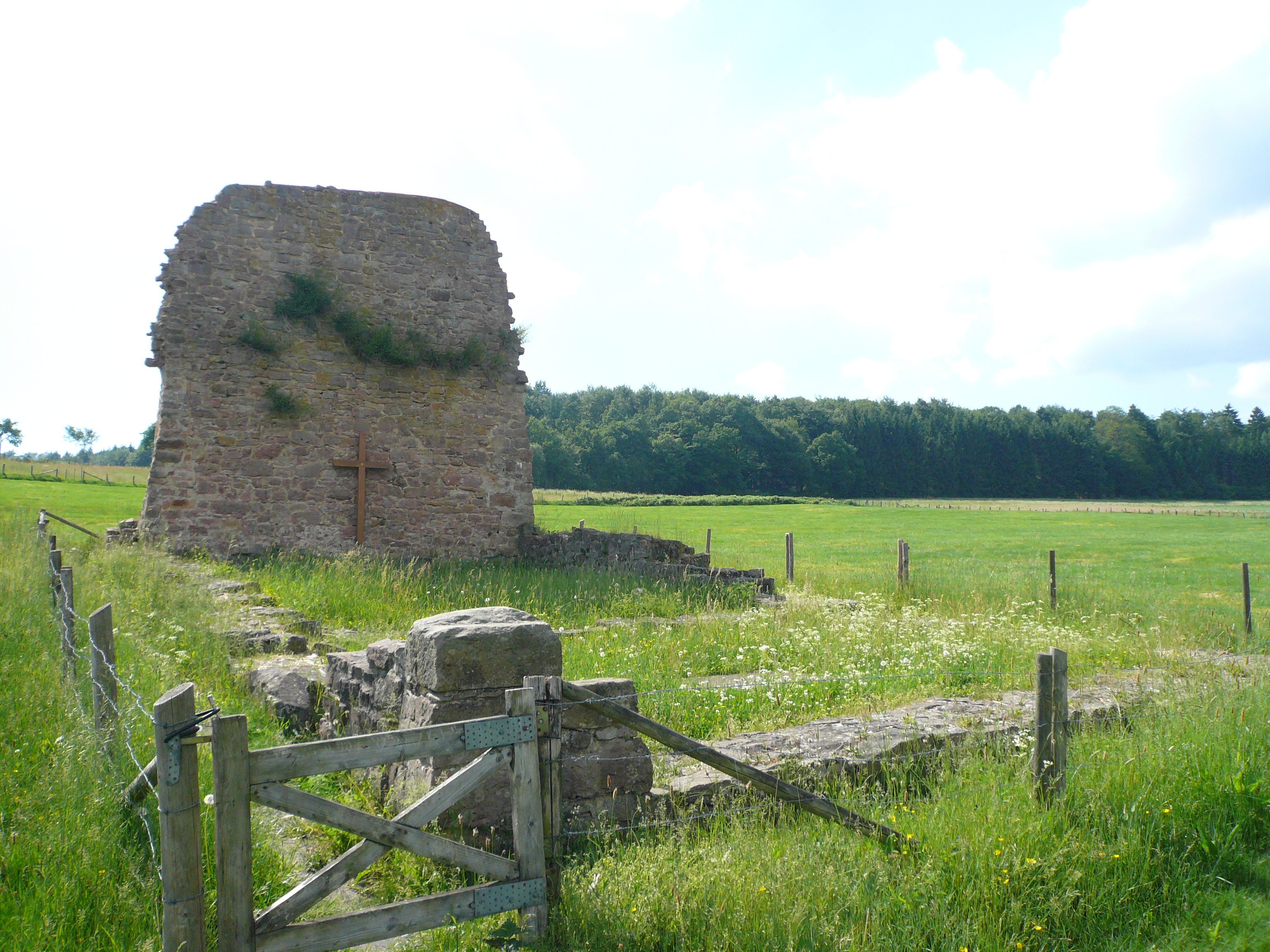 Church ruins of Malliehagen near Uslar-Dinkelhausen in the Solling forest, Lower Saxony, Germany